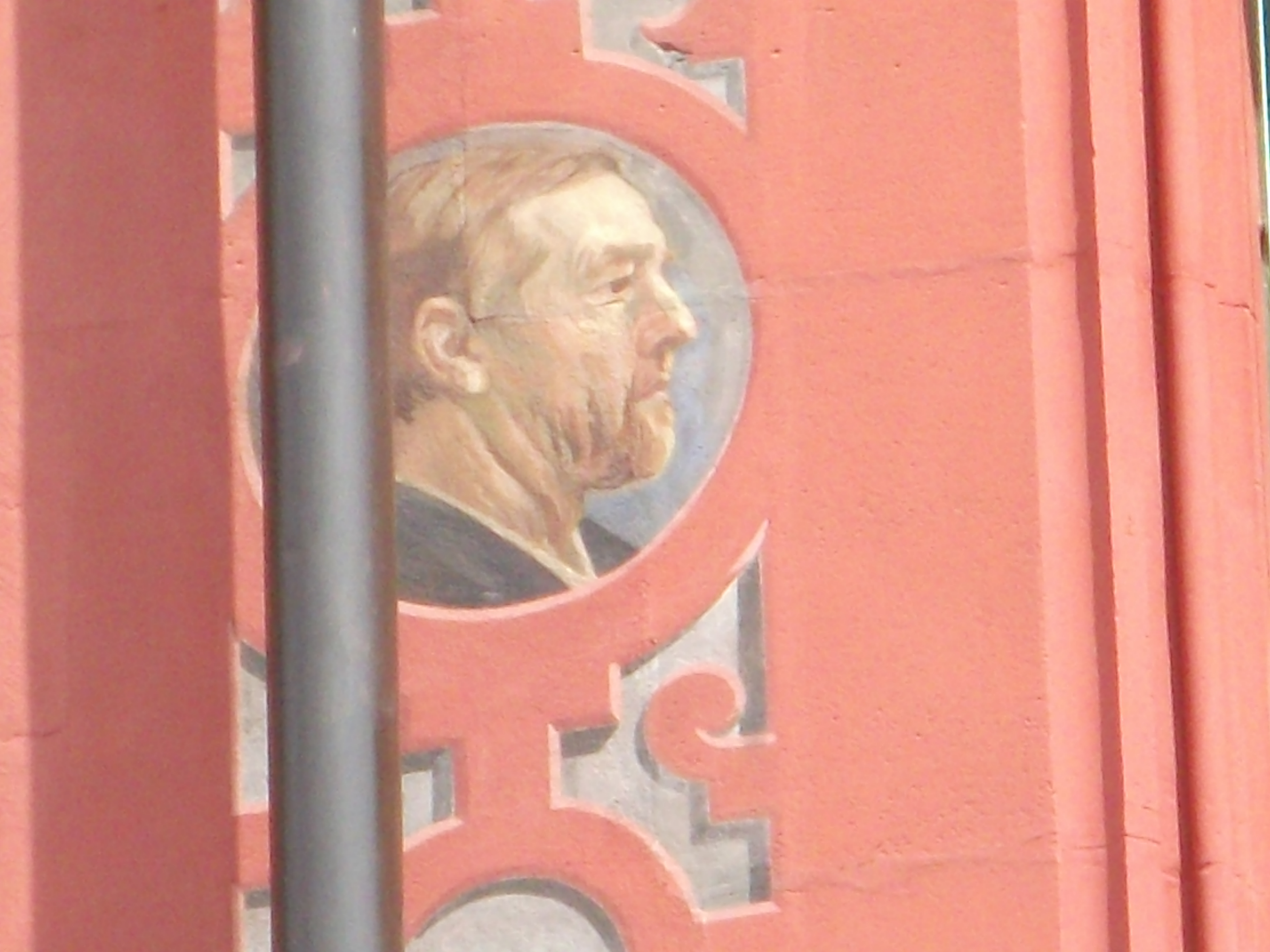 Picture of Paul Speiser on the Facade of the town hall of Basel (switzerland). The Facade was created by Wilhelm Balmer und Franz Baur 1901.